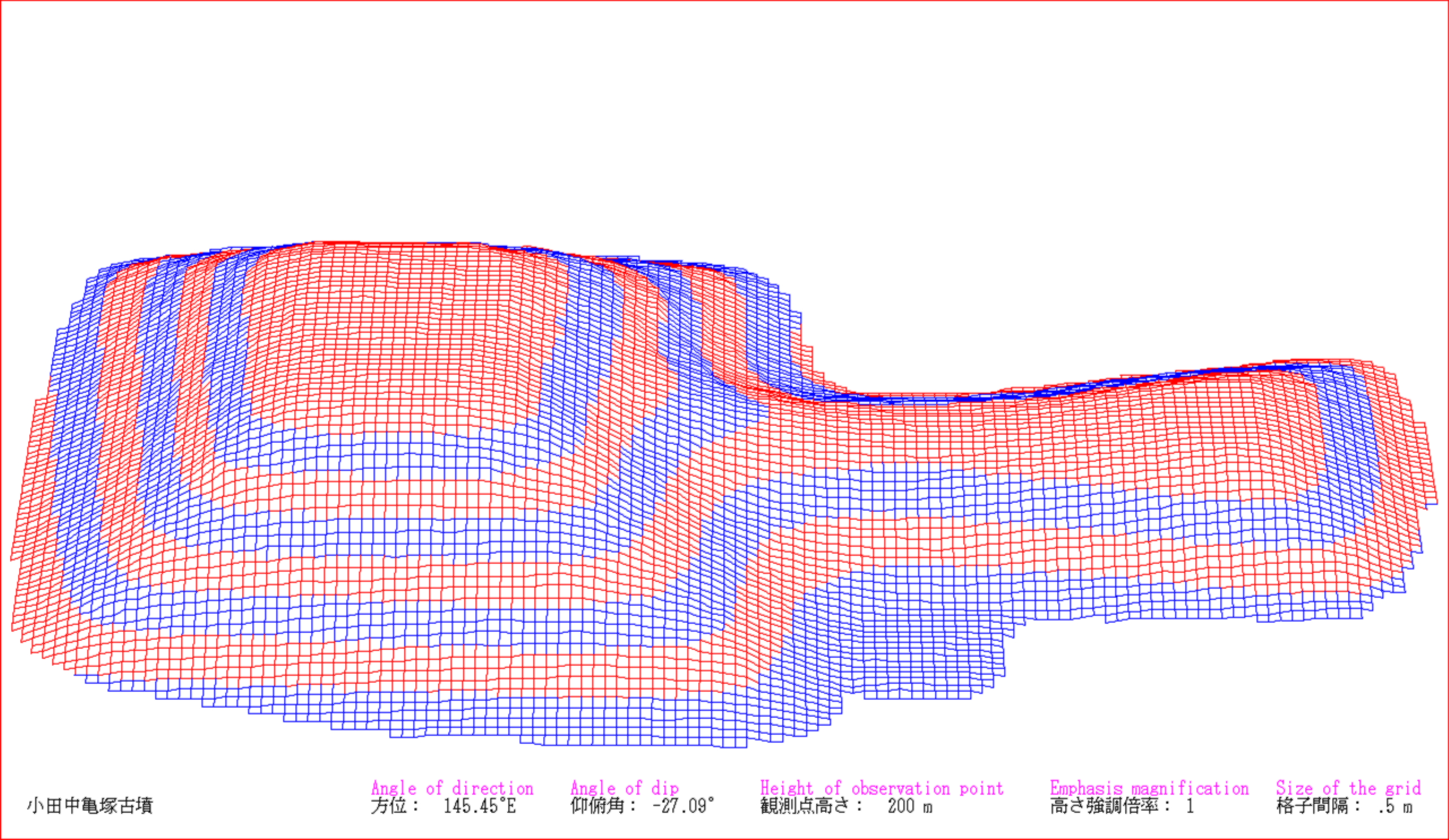 I who am a contributor drew the picture by a software which developed by myself. The survey map which I referred to depends on "「大入杵命墓墳丘外形調査および出土品調査報告」『書陵部紀要 第66号 陵墓篇』 宮内庁書陵部 (2015年）". This is a drawing of present situation (not a drawing of a restored mound). The drawing depends on combination of wire frame and height eight phases classification. Perspective projection.